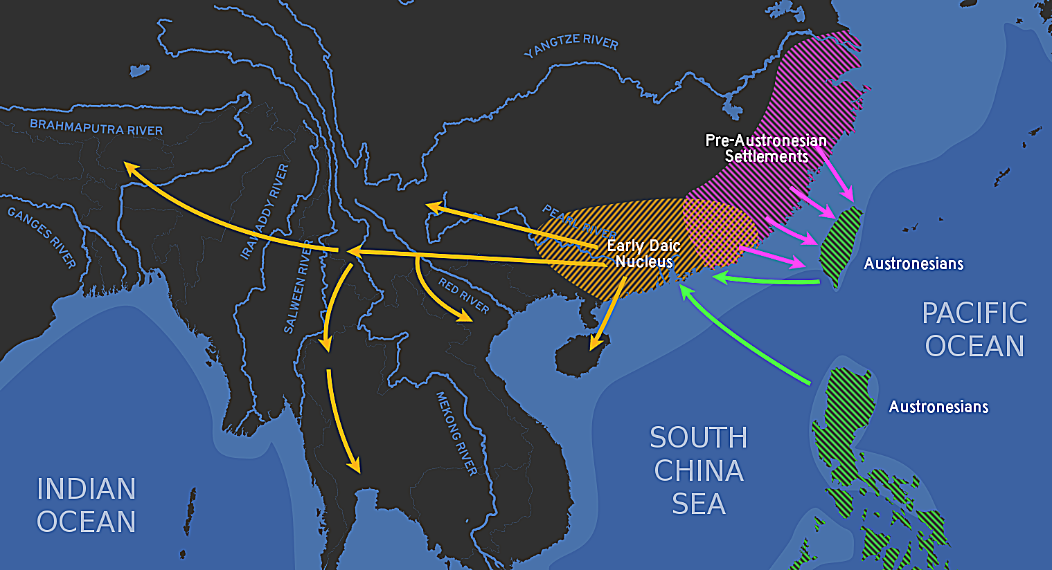 Genesis of Daic languages and their relation with Austronesians per: (2018) Tai-Kadai and Austronesian are Related at Multiple Levels and their Archaeological Interpretation (draft)